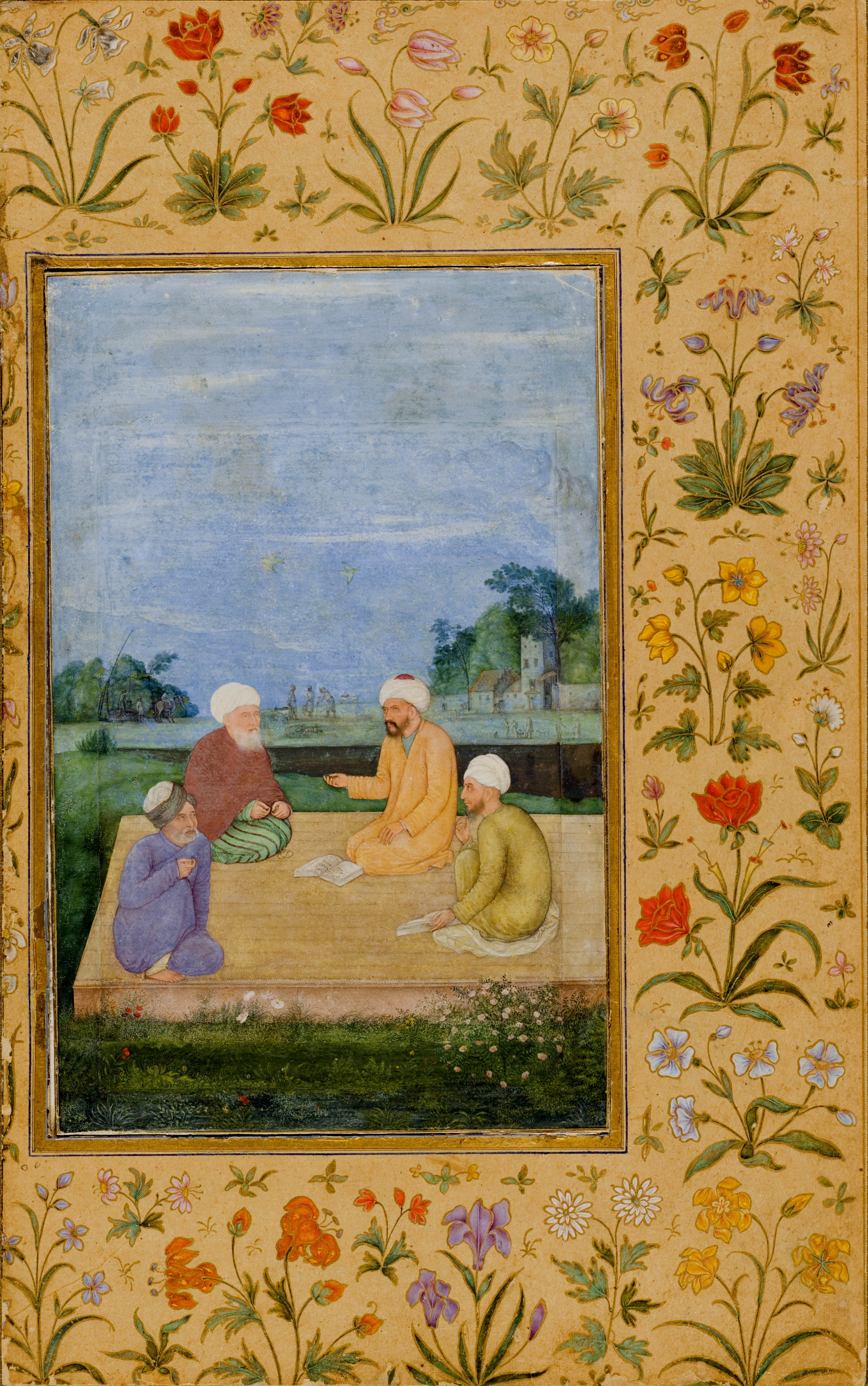 Govardhan. A Discourse Between Muslim Sages ca. 1630 LACMA